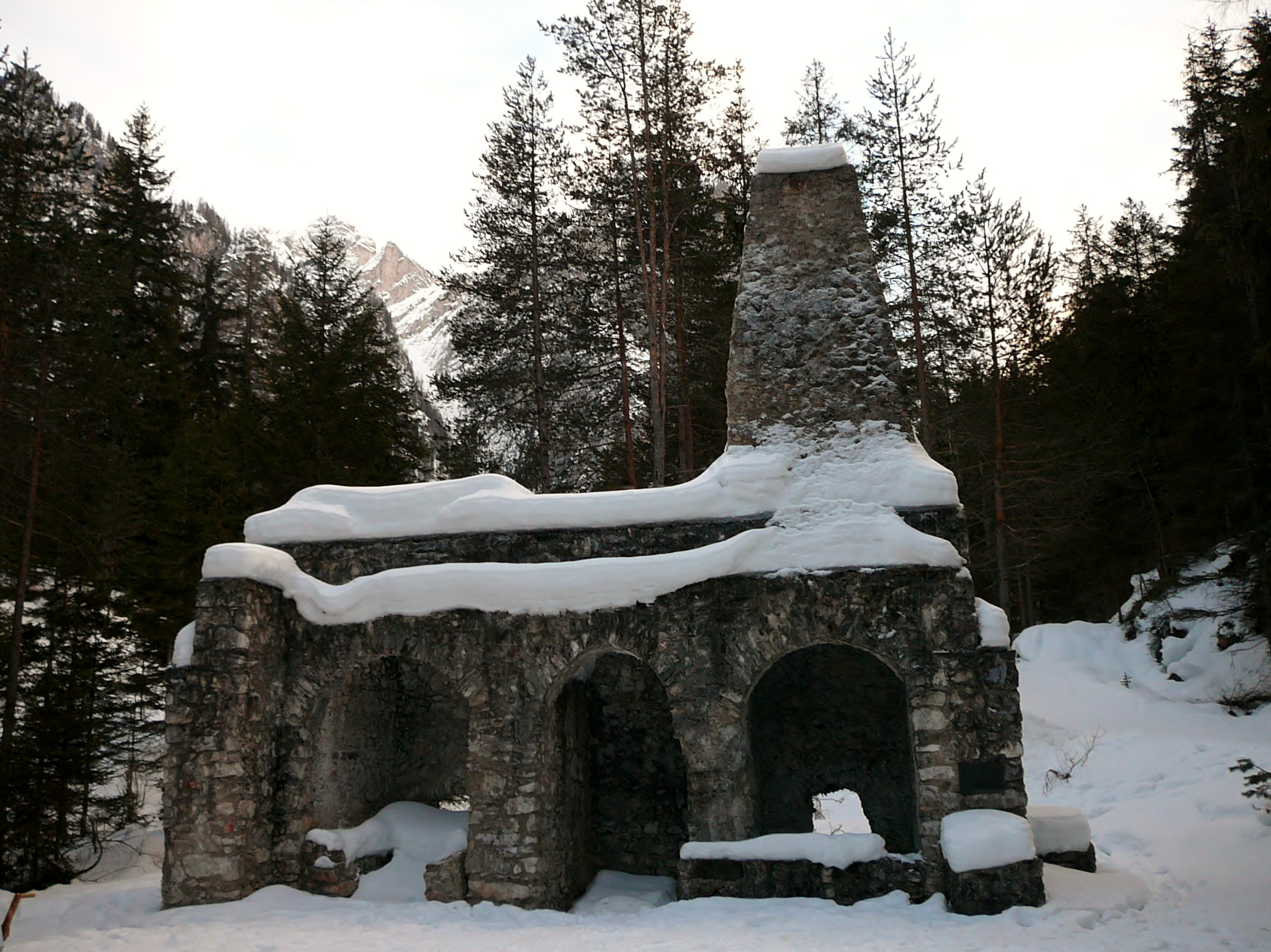 Old foundry near Dobbiaco-Toblach